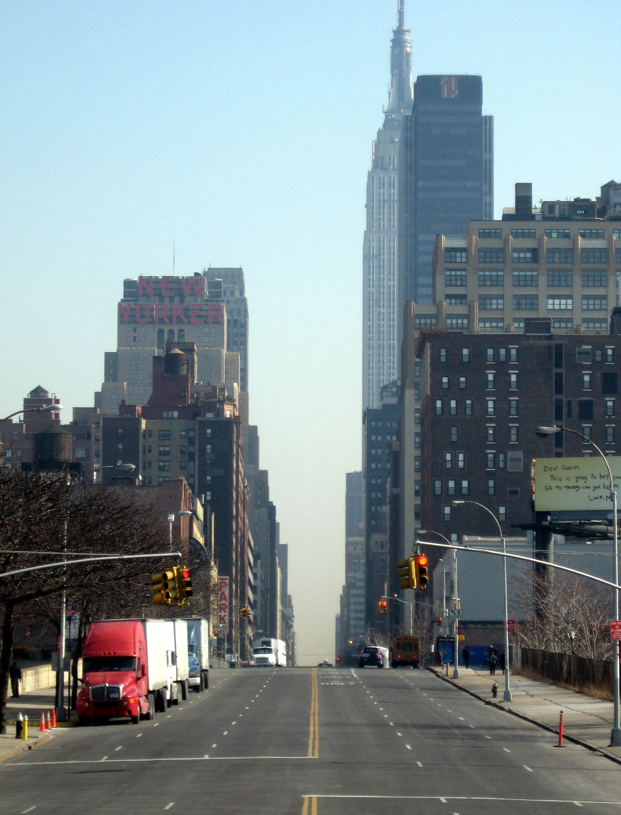 Looking east from west end of West en:34th Street (Manhattan) on a sunny early afternoon